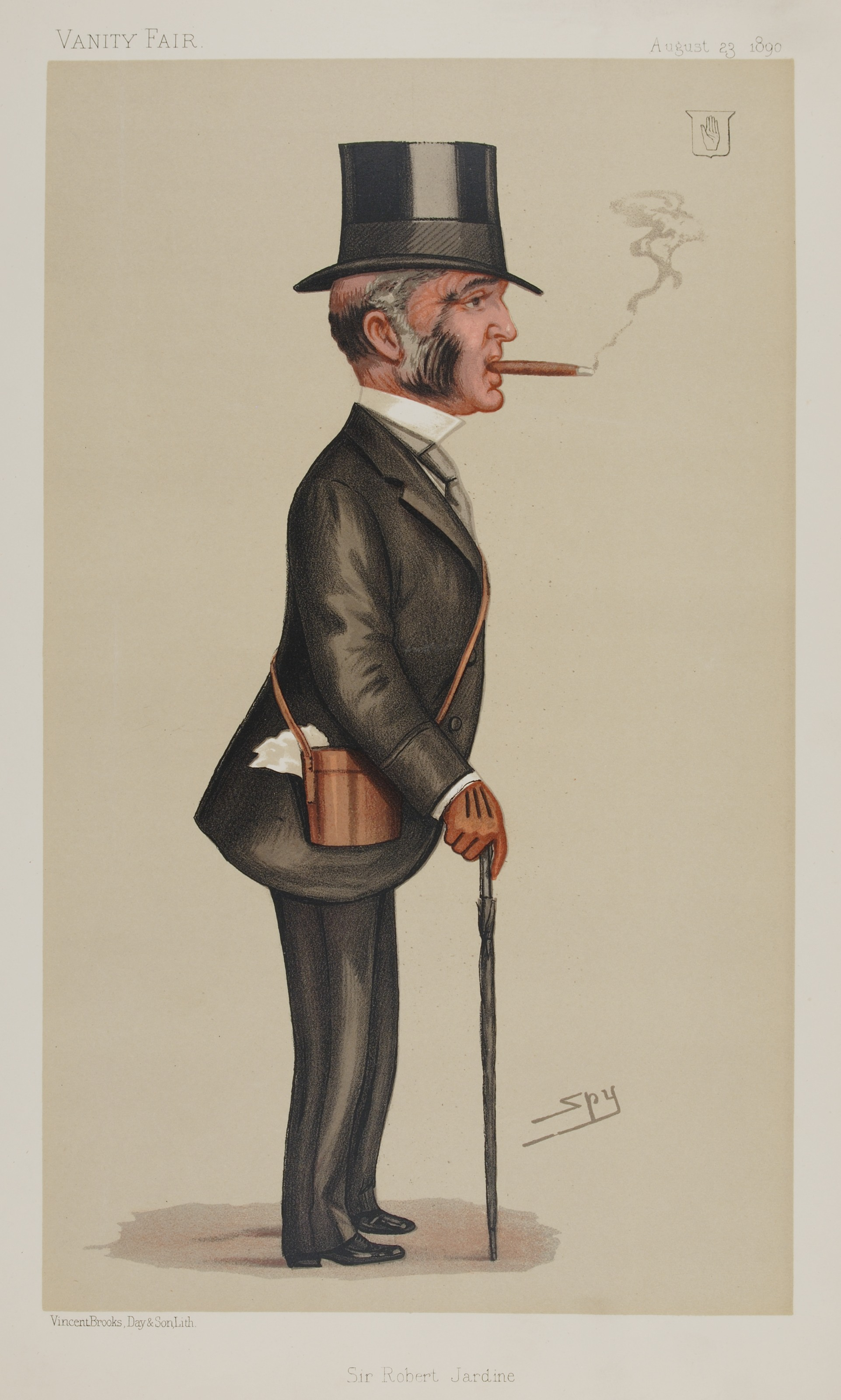 Statesmen No. 573: Caricature of Sir Robert Jardine M.P.. Caption read: "Sir Robert Jardine".